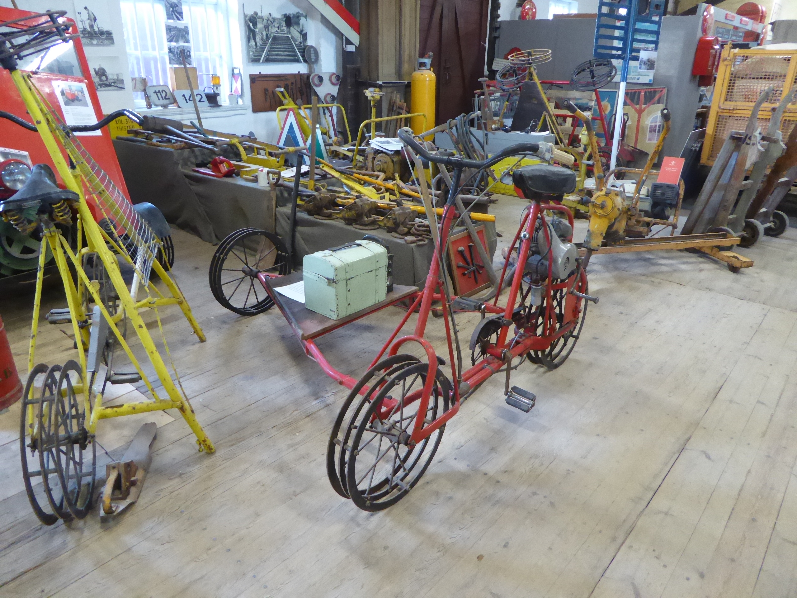 Interior of the railway museum Midt- og Vestjyllands Jernbanemuseum in Struer in Denmark.